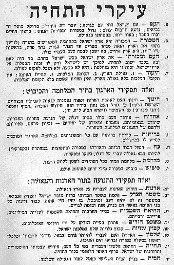 18 Principles of Rebirth, written by Avraham Stern (1907-1942)